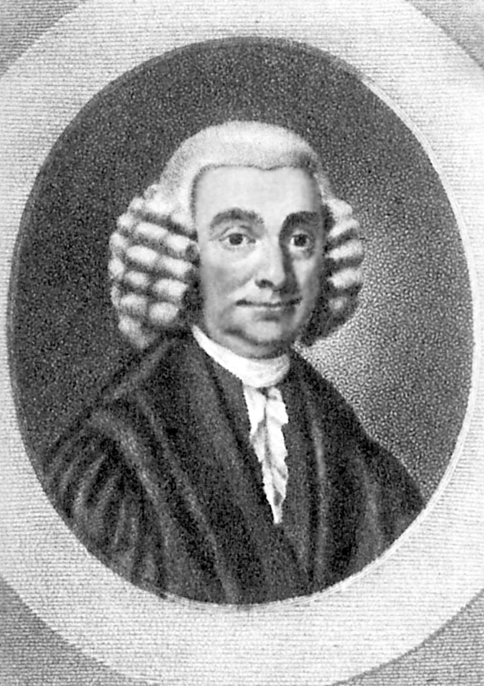 Adrian Kluit (1735-1807) Dutch historian